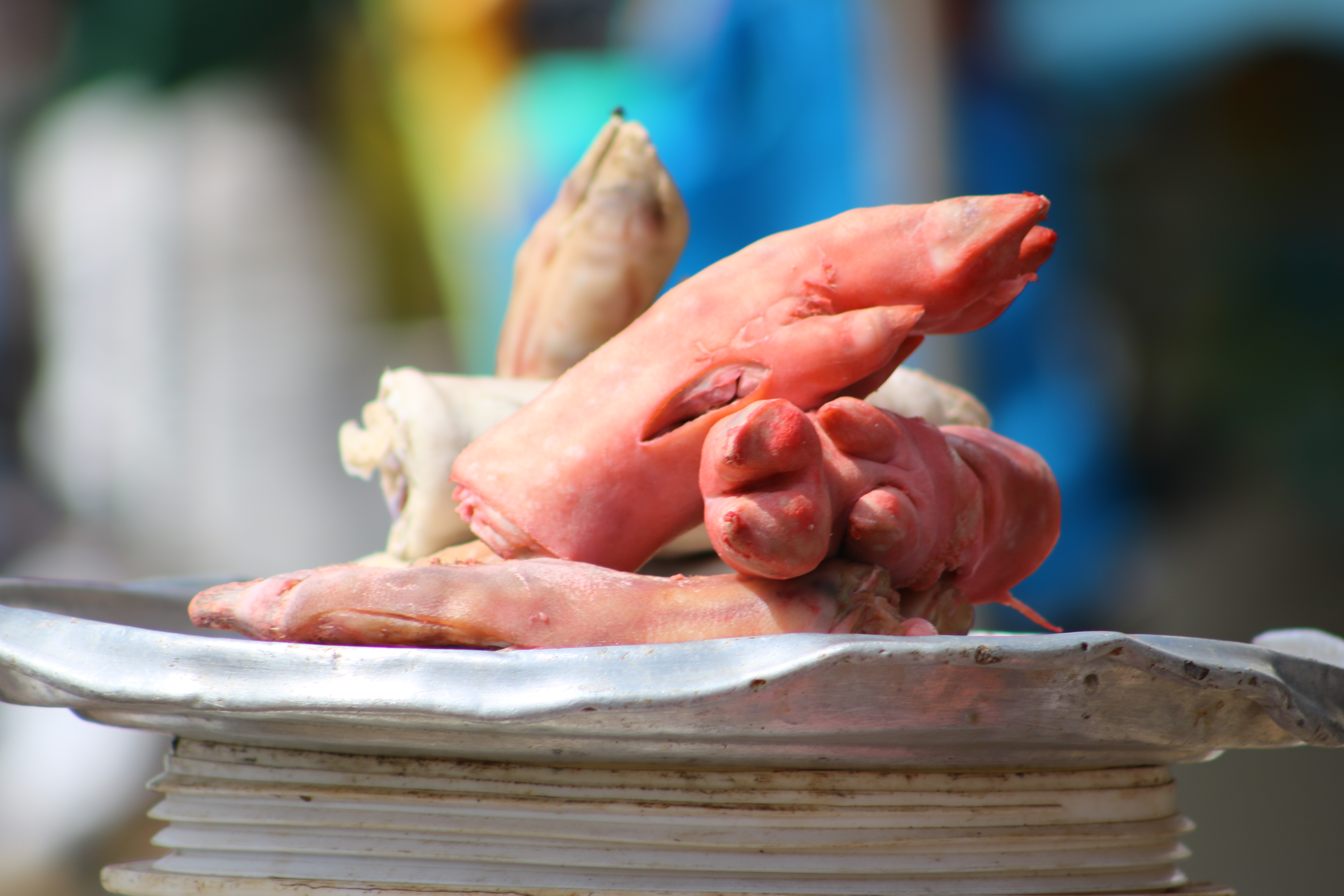 Ghanaian pig feet seller by the roadside. This is an image of "African people at work" from Ghana